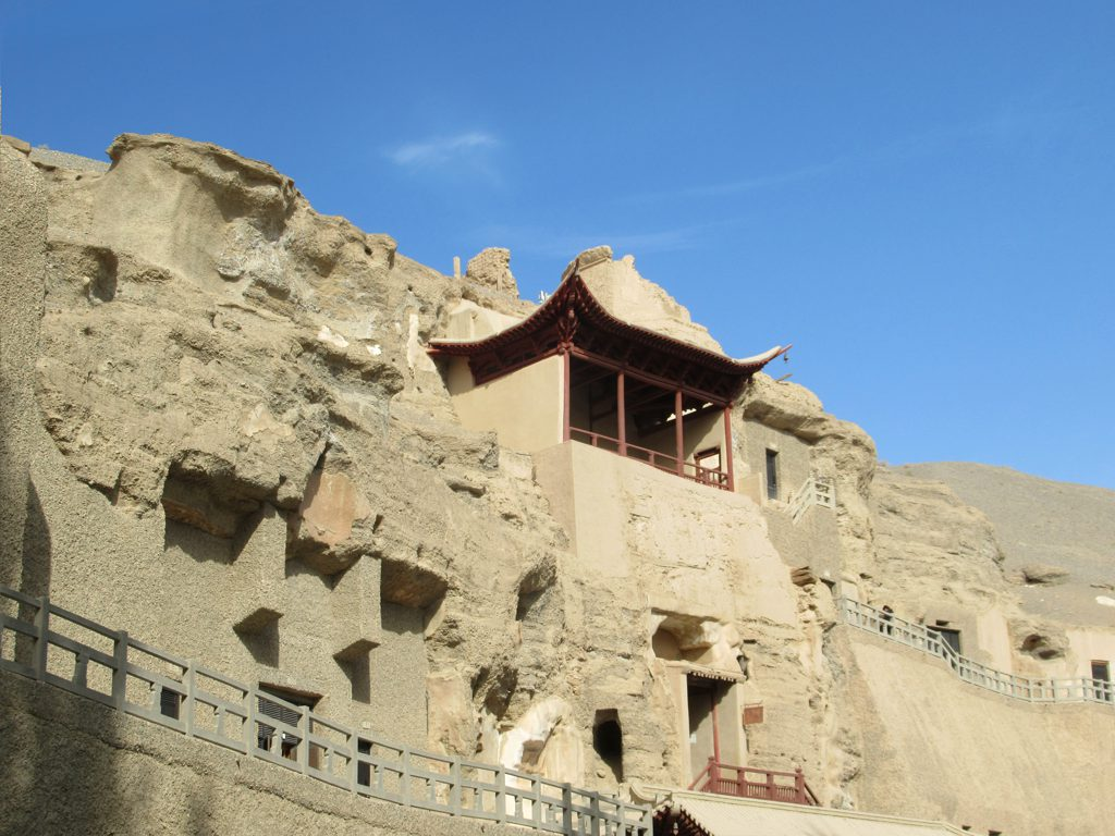 The Mogao Caves contain as many as 2,415 statues and murals in 492 caves along a broken cliff southeast of Dunhuang, Gansu, China. It`s Chinas’ richest storehouse of ancient Buddhist art.